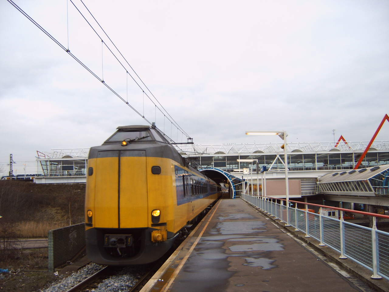 Picture of Duivendrecht railway station, south of Amsterdam, showing the tracks on two levels. Upper level: Amsterdam - Utrecht, lower level: Schiphol - Amsterdam WTC - Weesp - Hilversum.